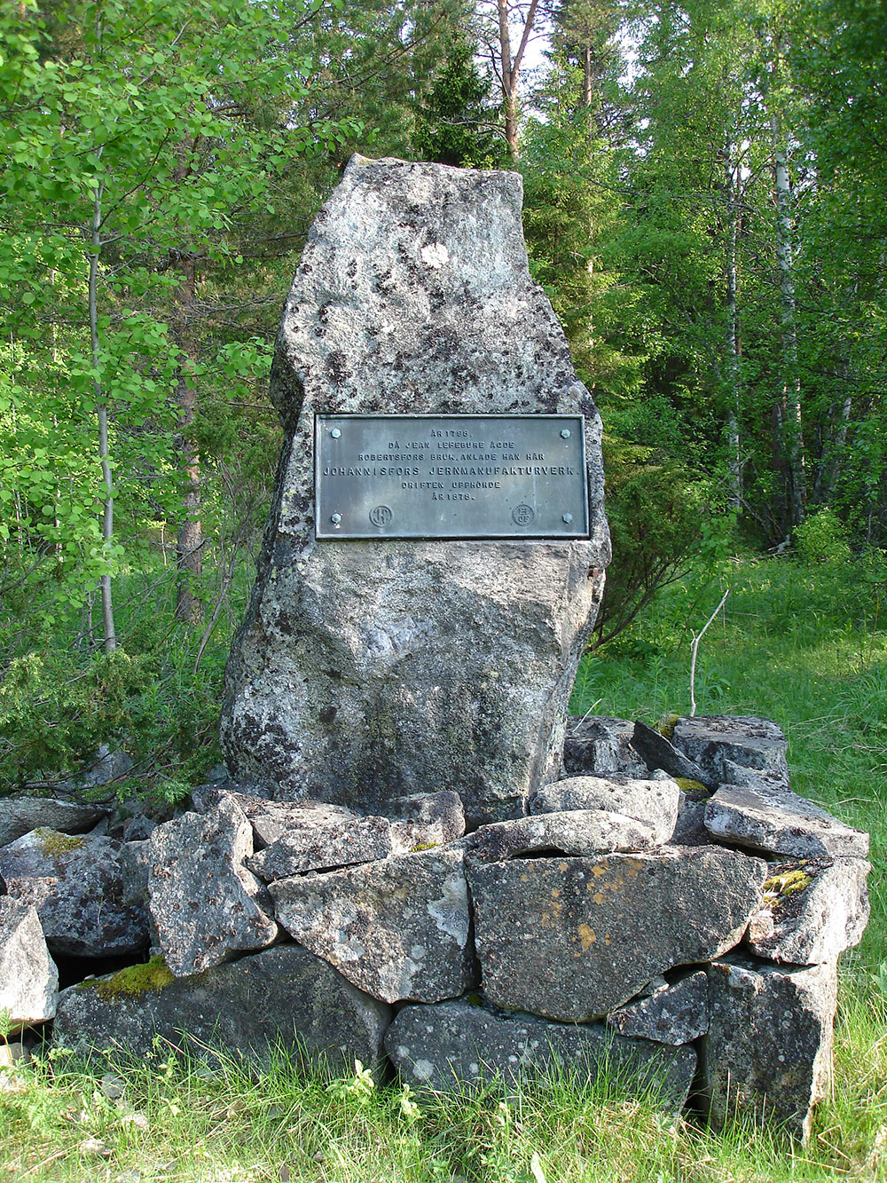 Monument of Johannisfors ironworks (1798-1878) by river Pålböleån north of Sävar, Umeå municipality, Västerbotten county, Sweden.